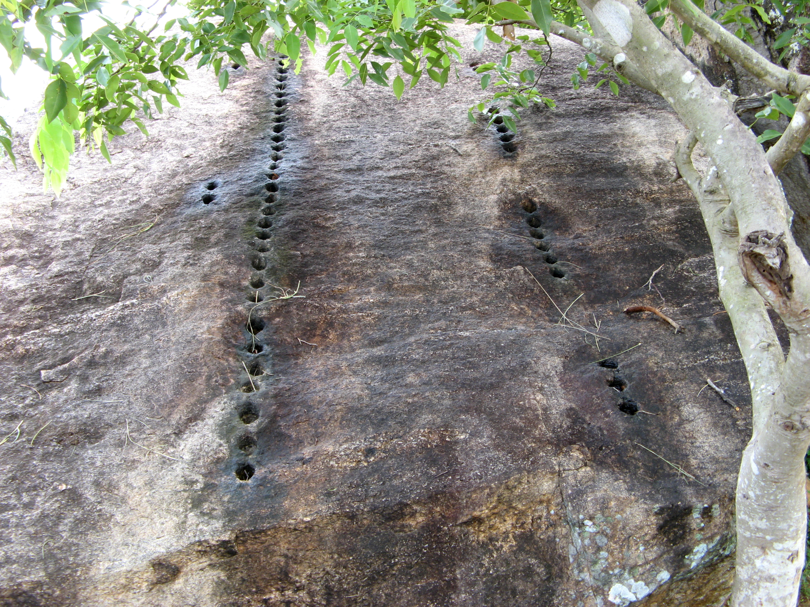 The peck-marks in this hard, granitic rock were hollowed out laboriously by ancient hand-drills in a quarrying operation. These marks outline the shape of a beam. The next step would be to insert small wooden pegs into the holes. When wetted, the pegs would swell with enough force to actually split the rock.